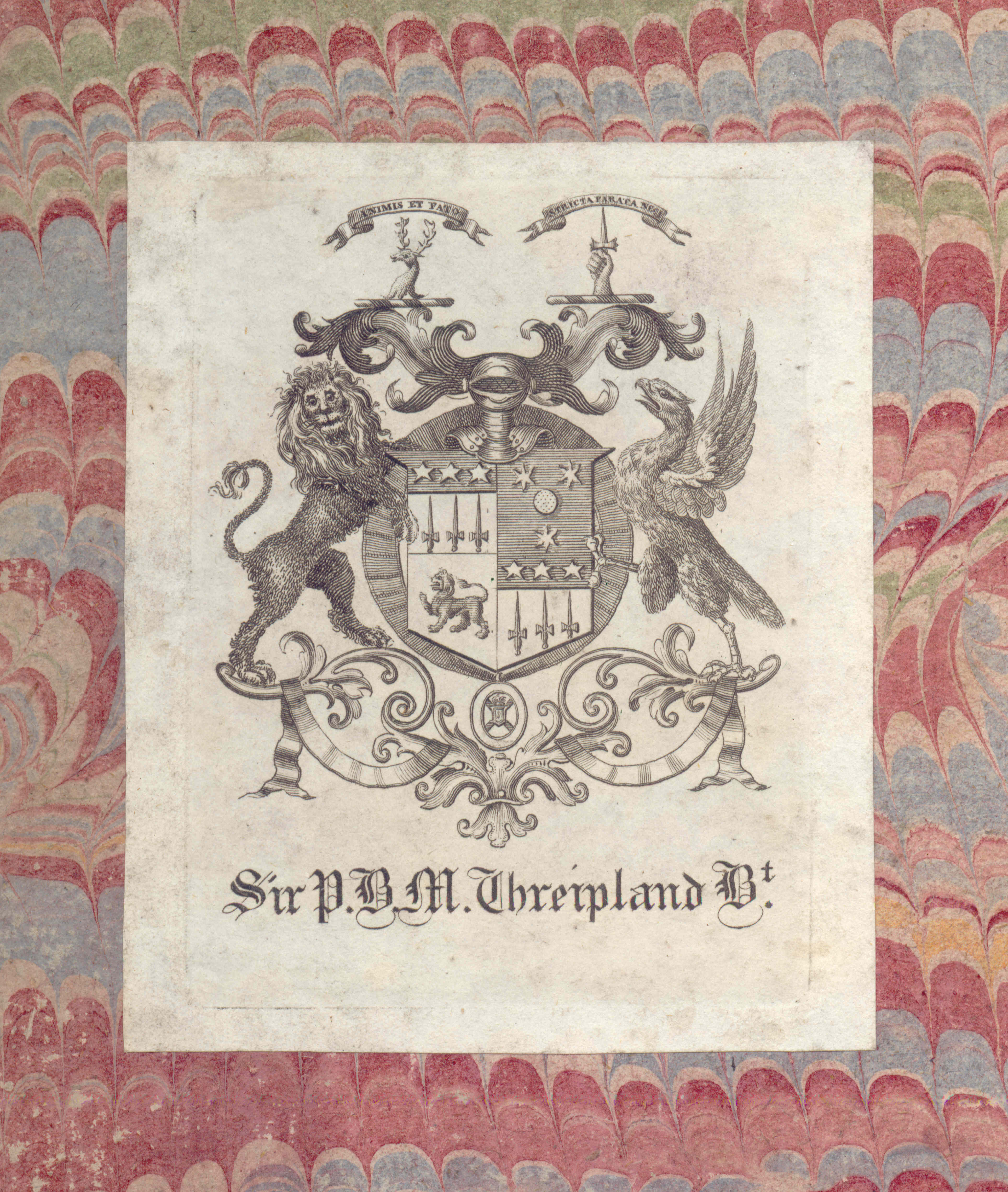 bookplate of Sir Patrick Budge Murray Threipland, 4th Bart. of Fingask Castle (1762-1837). Scan of original plate in a copy of a 1761 Book of Common Prayer.Rodolph 16:32, 18 May 2007 (UTC)